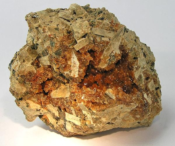 Stilbite, Biotite, Orthoclase Locality: Granite Mountain area, Little Rock, Pulaski County, Arkansas, USA (Locality at ) Size: 6.9 x 5.2 x 3.9 cm. In a shallow pocket in an aggregate of orthoclase crystals peppered with flecks of biotite is a shallow pocket with glittery crystals of transparent stilbite - an uncommon Arkansas zeolite specimen. Collected by Don Heins in 2004.